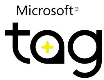 Logo of now defunct Microsoft Tag